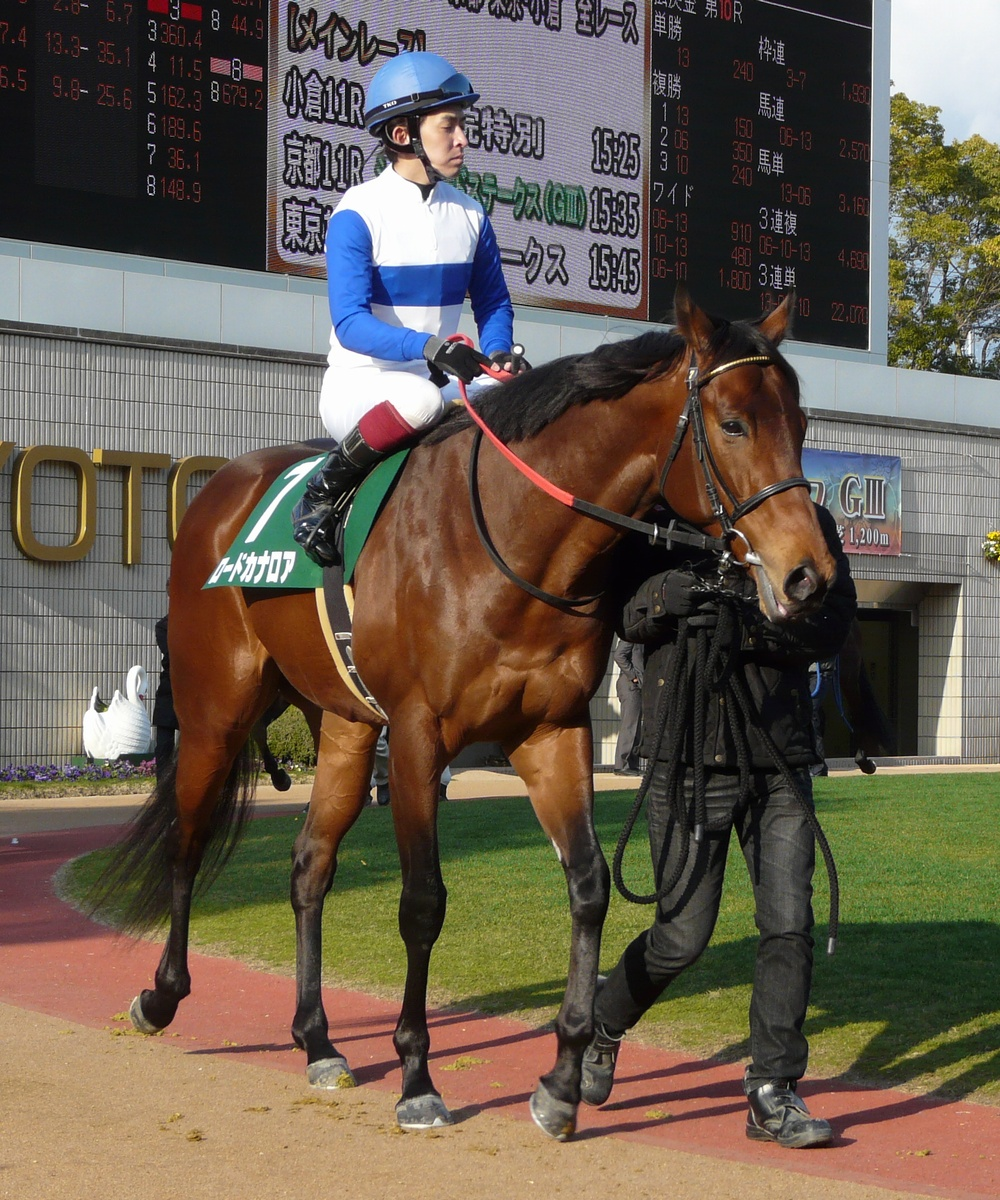 Lord-kanaloa20120128(1)